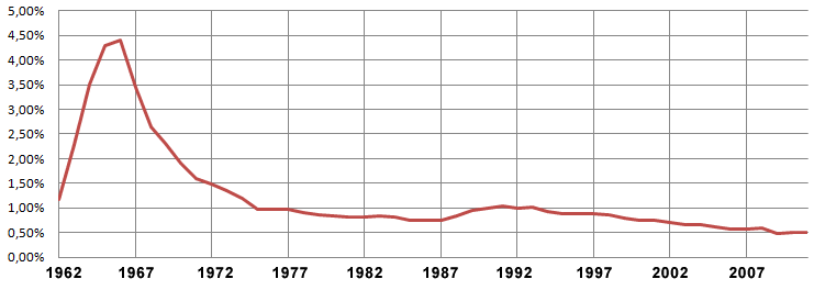 History of NASA's annual budget in % of féderal budget